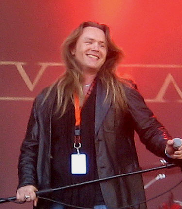 Pekka Heino live at Sauna open Air 2007 with Leverage